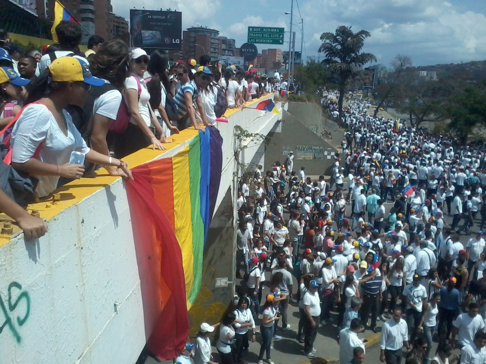 An opposition rally shortly after Leopolo López turned himself in, in the Francisco Fajardo Highway. LGBT supporters are shown with a rainbow flag.